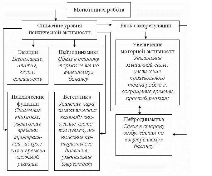 схема развития монотонии